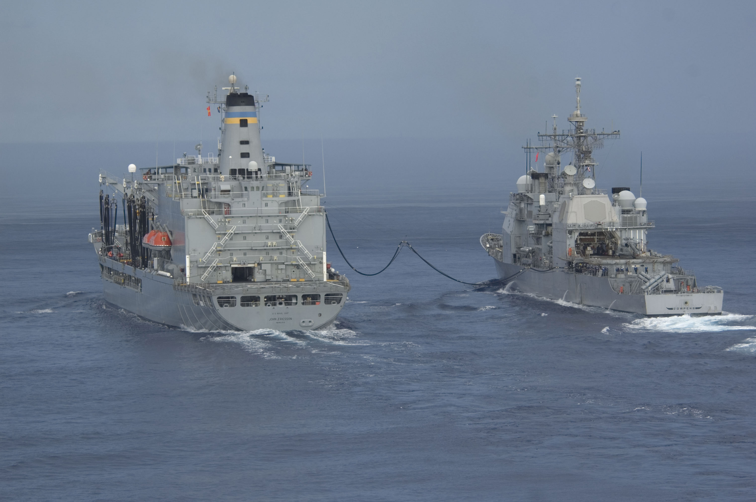 USS Cowpens (CG-63) receives fuel from the Military Sealift Command ship USNS John Ericsson (T-AO-194) during exercise Valiant Shield 2007 while at sea Aug.10, 2007. The joint exercise consists of 28 naval vessels, more than 300 aircraft, and approximate ly 20,000 service members from the Navy, Army, Air Force, Marine Corps and Coast Guard.